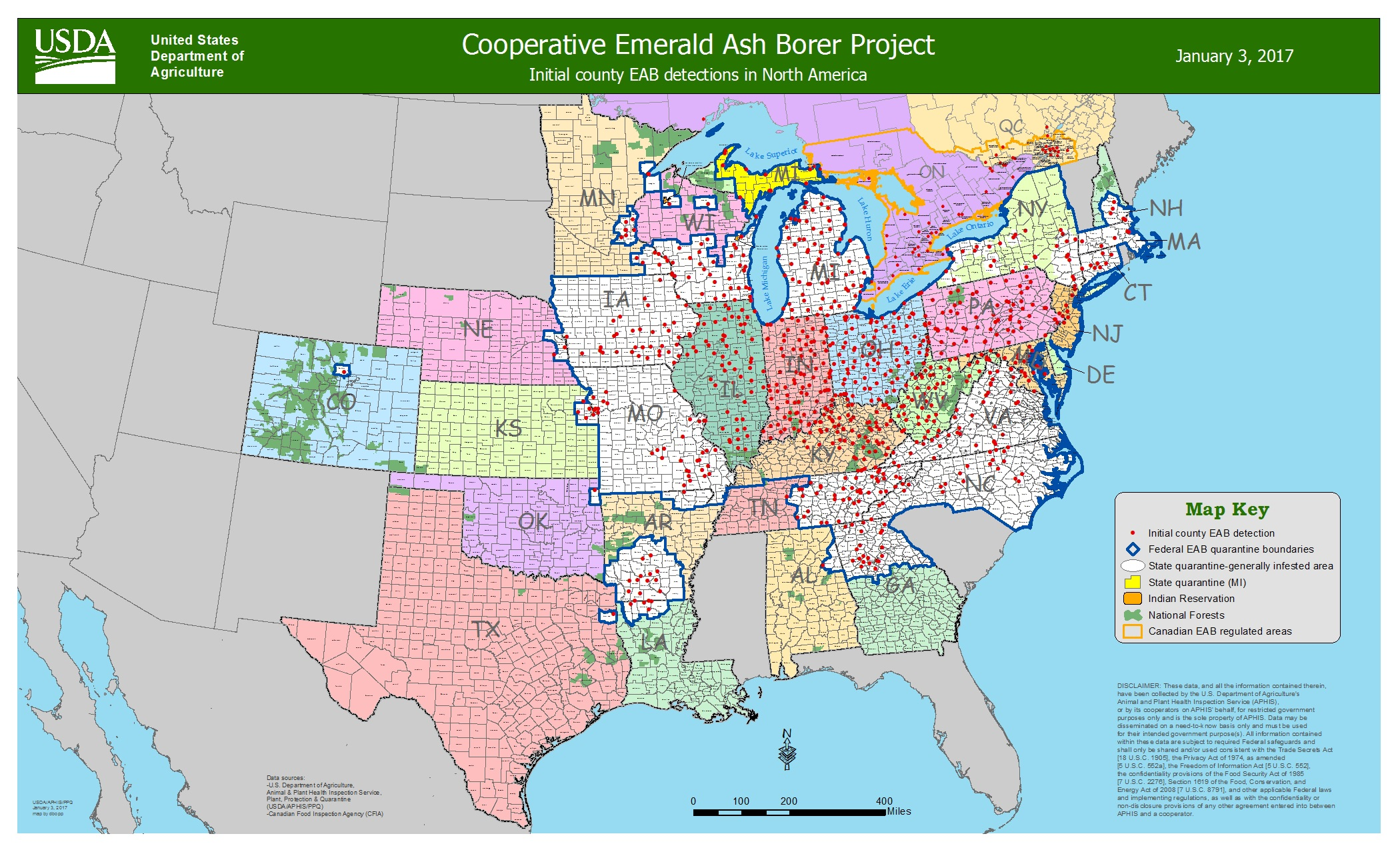 Emerald ash borer finds and quarantine locations as of January 3, 2017.